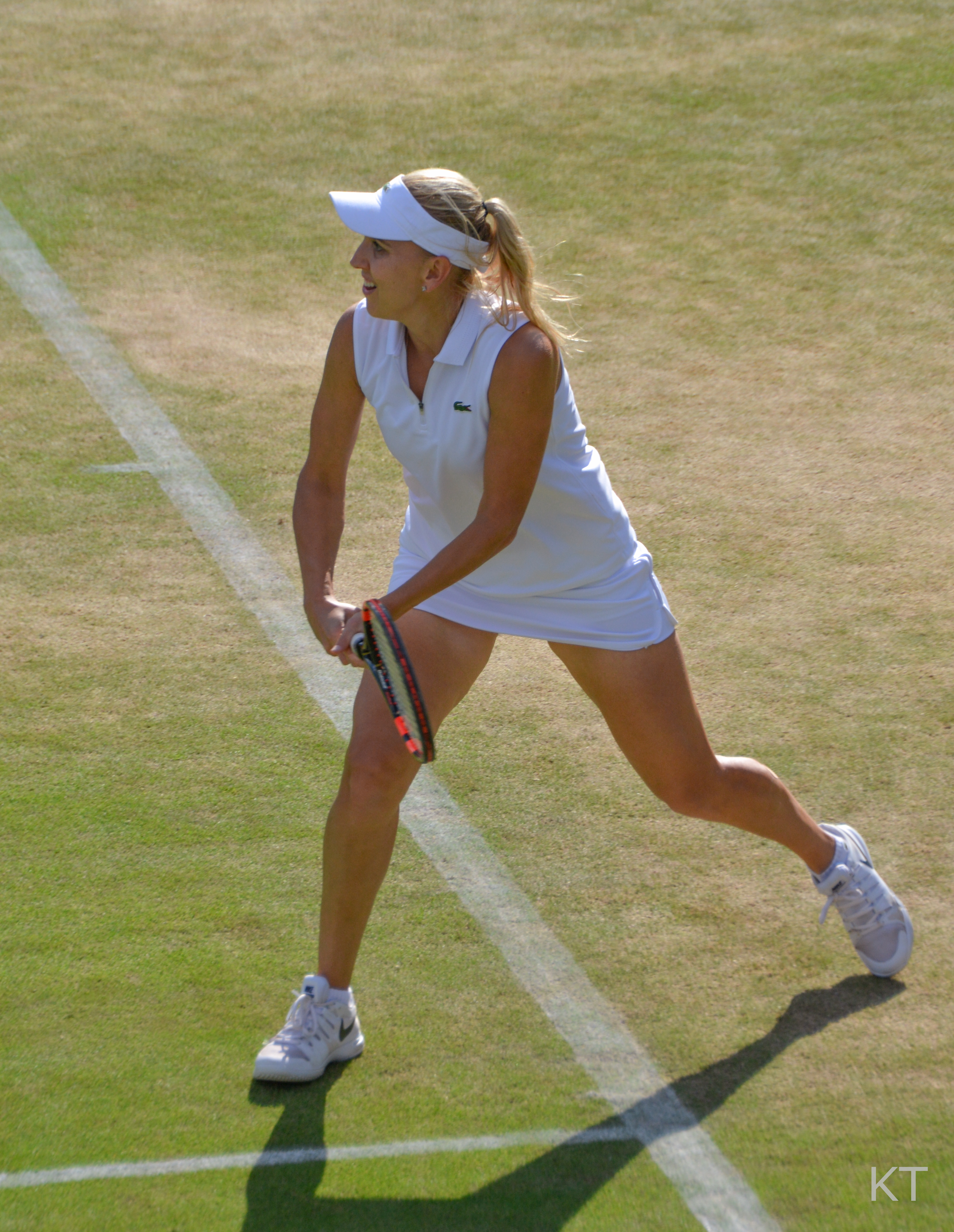 Middle Sunday of Wimbledon 2016.